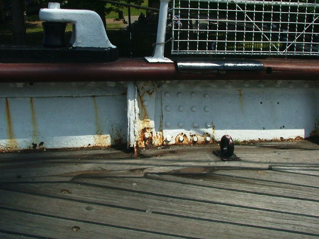 Showing yet more of this ships unique composite construction.